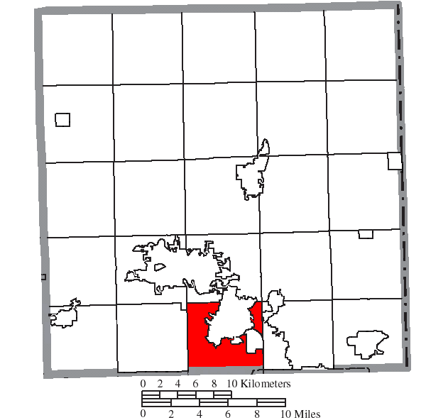 Map of the municipal and township boundaries of Trumbull County, Ohio, United States, as of the 2000 census, with the location of Weathersfield Township highlighted. Township borders are shown only in unincorporated areas in order to differentiate incorporated and unincorporated areas more clearly.